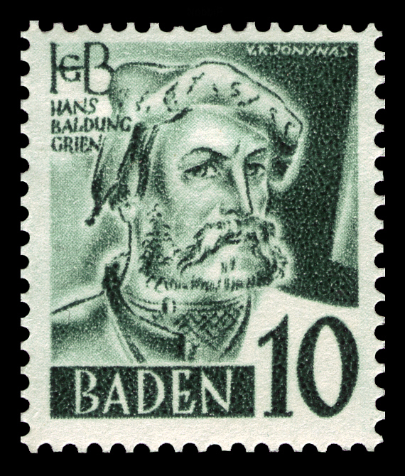 French occupied zone, Baden, persons and views of Baden (III) Ausgabepreis: 10 Pfennig First Day of Issue / Erstausgabetag: November 1948 Michel-Katalog-Nr: 33 (Französische Besetzungszone, Baden)